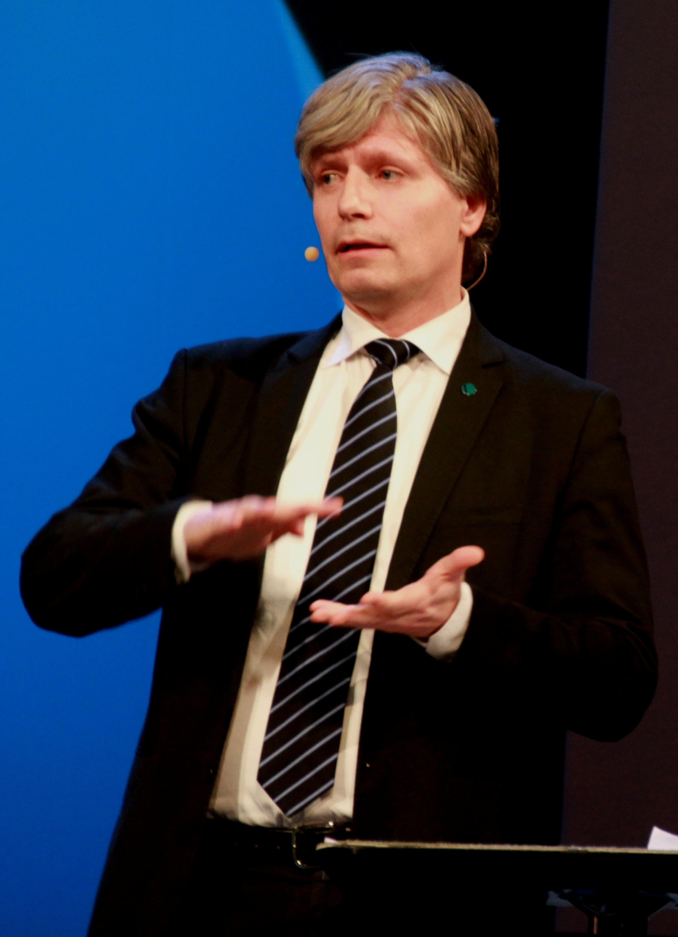 Ola Elvestuen, vice president of the Liberal Party, and Councellor of Transportation of Oslo, Norway.